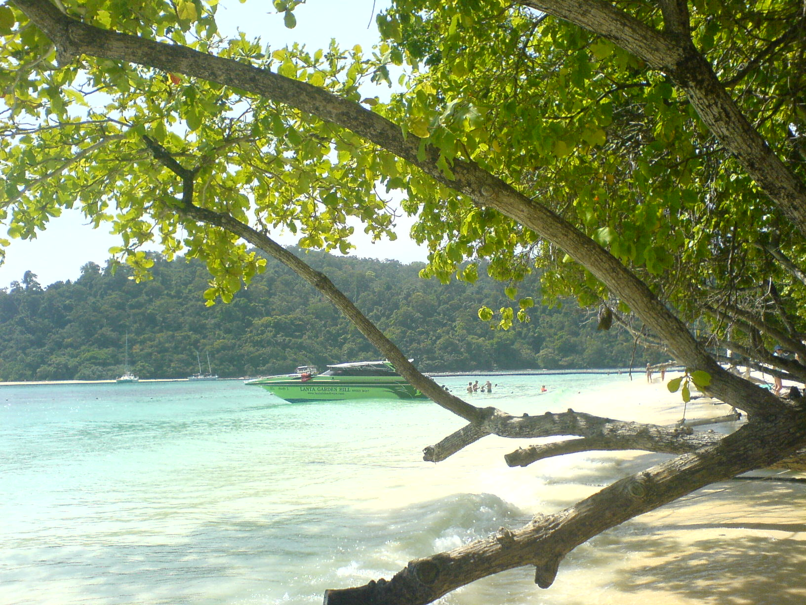 Koh Rok